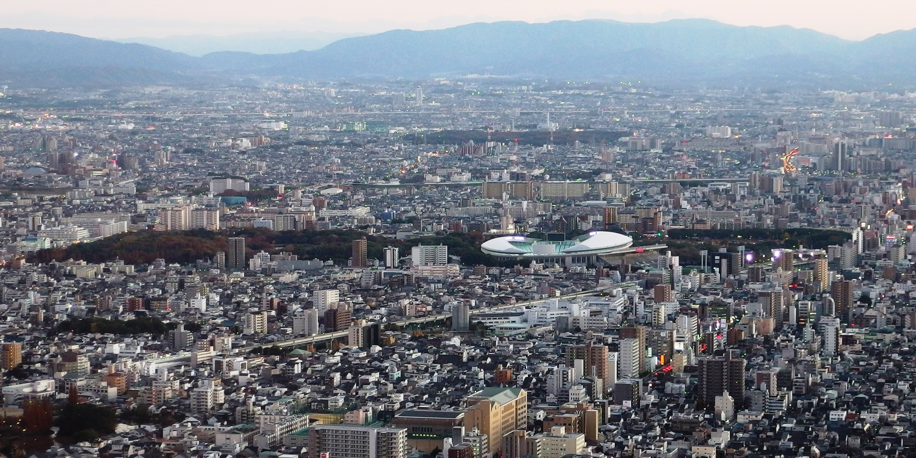 Nagai Park views from Abeno Harukas in Osaka, Osaka Prefecture, Japan